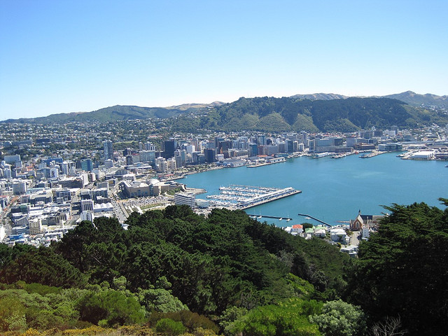 Wellington from Mount Victoria